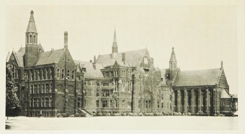 St Paul's School 1884–1968. Built 1884, demolished 1968. Architect Alfred Waterhouse Photograph taken circa 1900.